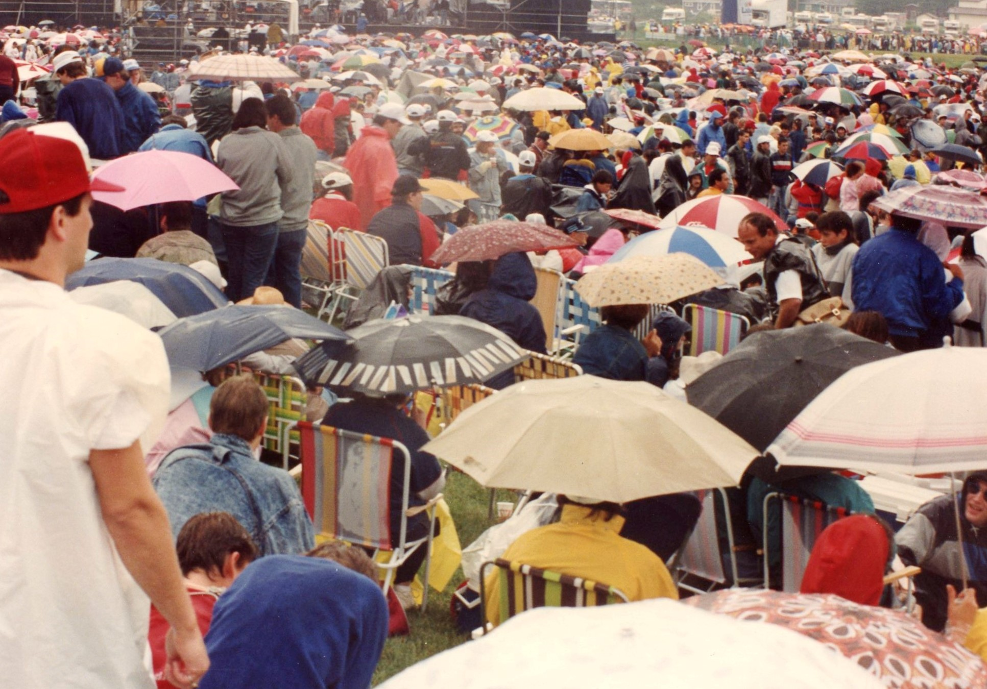 The umbrellas were used to keep off the rain instead of the sun as the crowd awaited the arrival of the Beach Boys at Parlee Beach, Shediac, New Brunswick, July 1, 1989. It was cold and rainy all day.